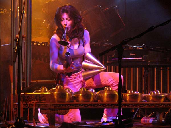 Evelyn Glennie at Moers Festival 2004 own photo, may 30, 2004- photo: nomo/michael hoefner